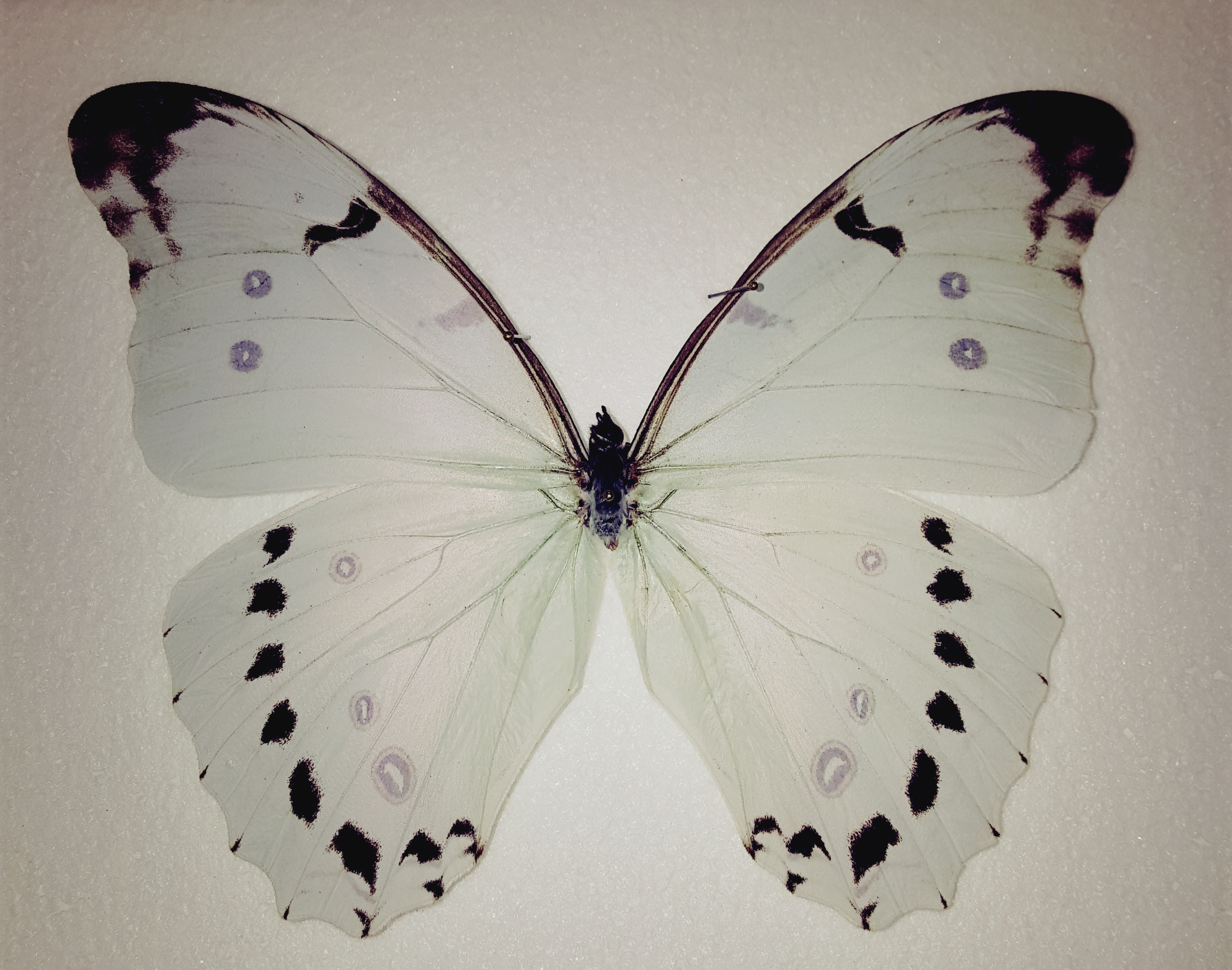 Purchased for taking public domain photos of, since there were no very detailed ones of this species. THIS SPECIMEN IS MISSING ITS ABDOMEN: Bicbugs removes them from certain species, including Morphos, to prevent discoloring. PUBLIC DOMAIN. THIS IS PUBLIC DOMAIN. I hereby release it as such on 2020.Feb 10.